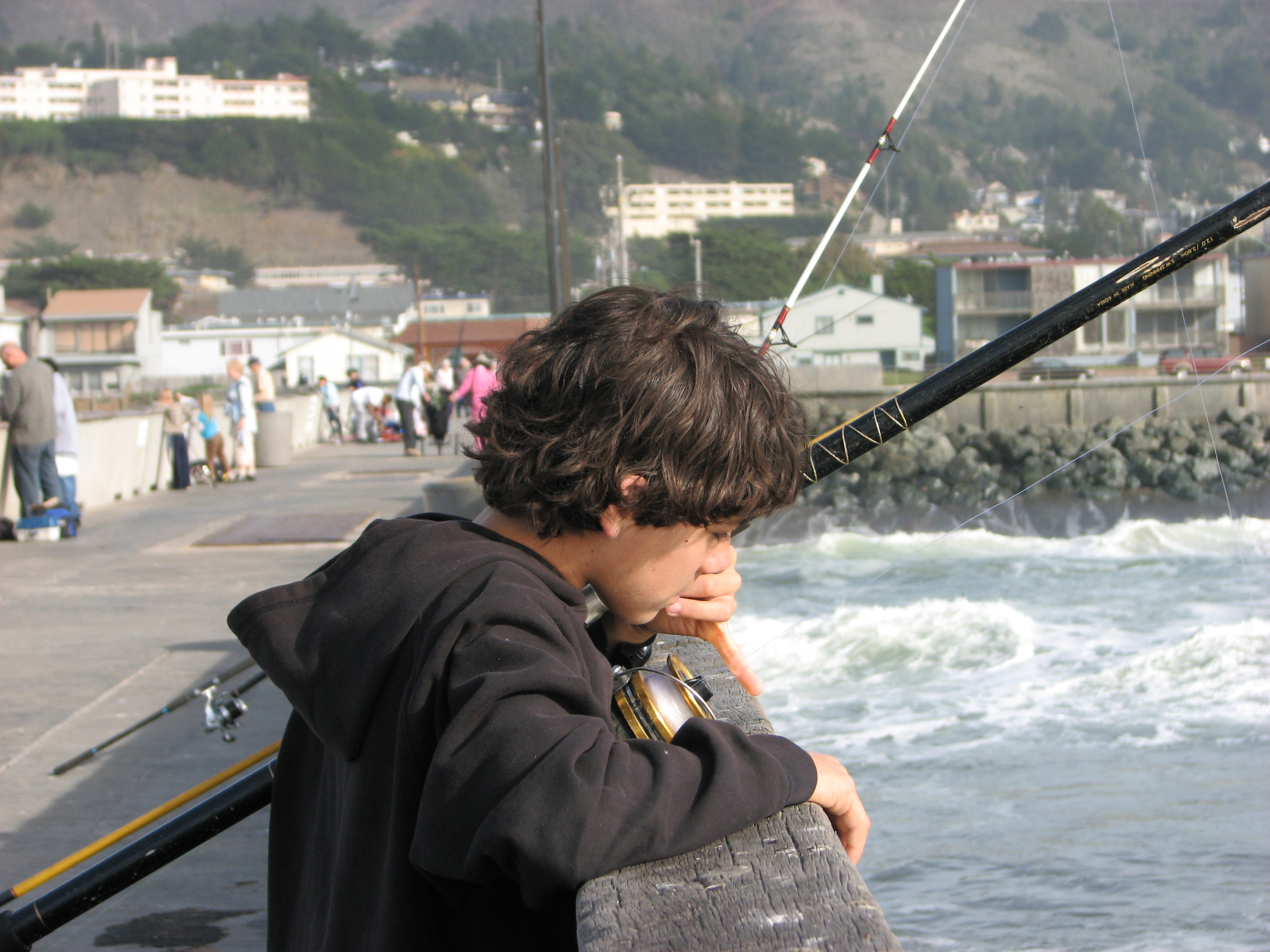 Andrew on the pier crabbing